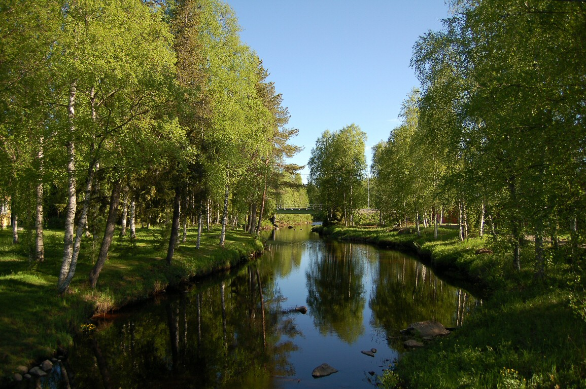 Viantiejoki river in Viantie village, Simo municipality, Finland. The Oulu—Tornio railway (main line) crosses over on the background.